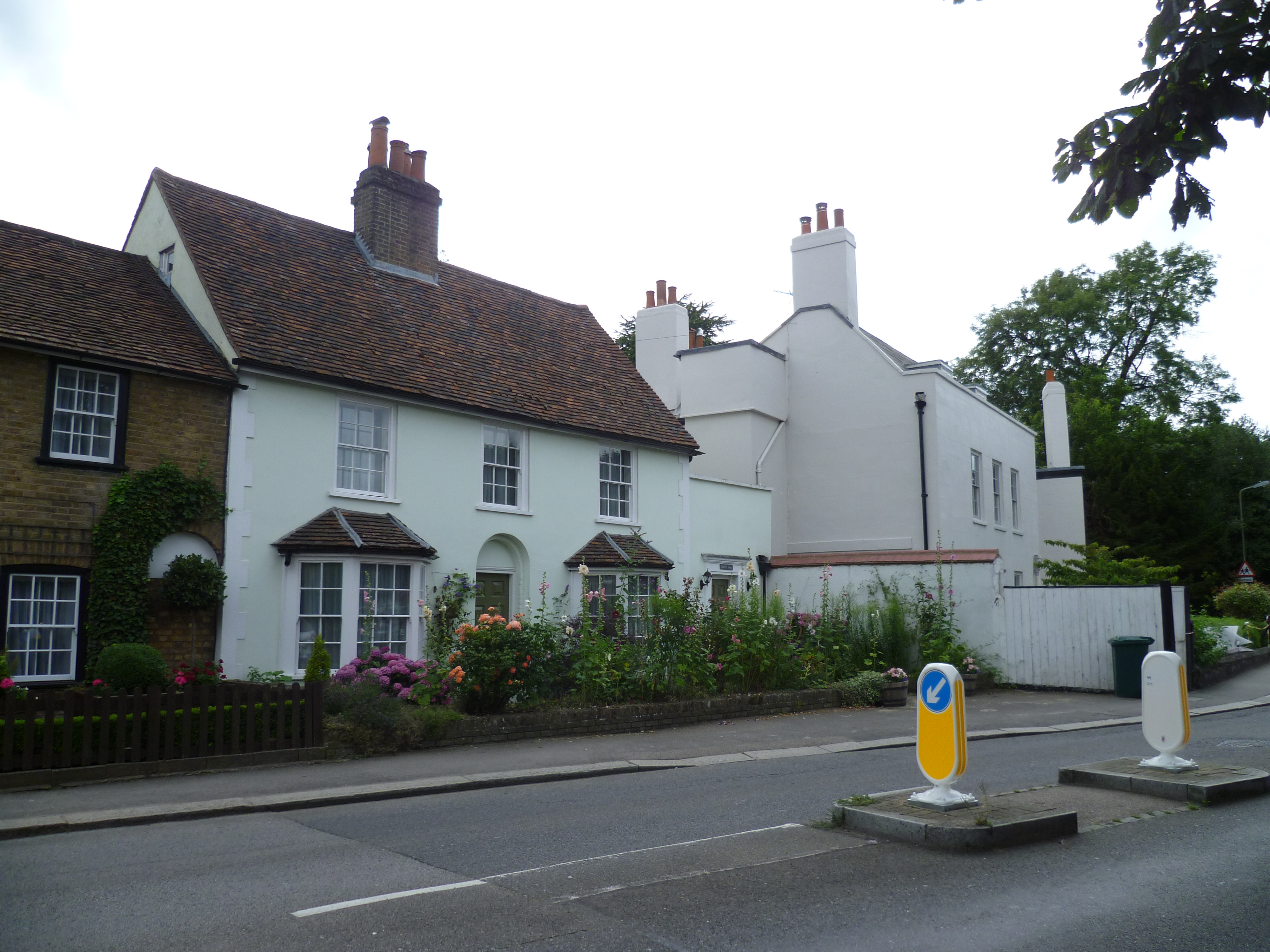 Monken Hadley 3 Aug 2015